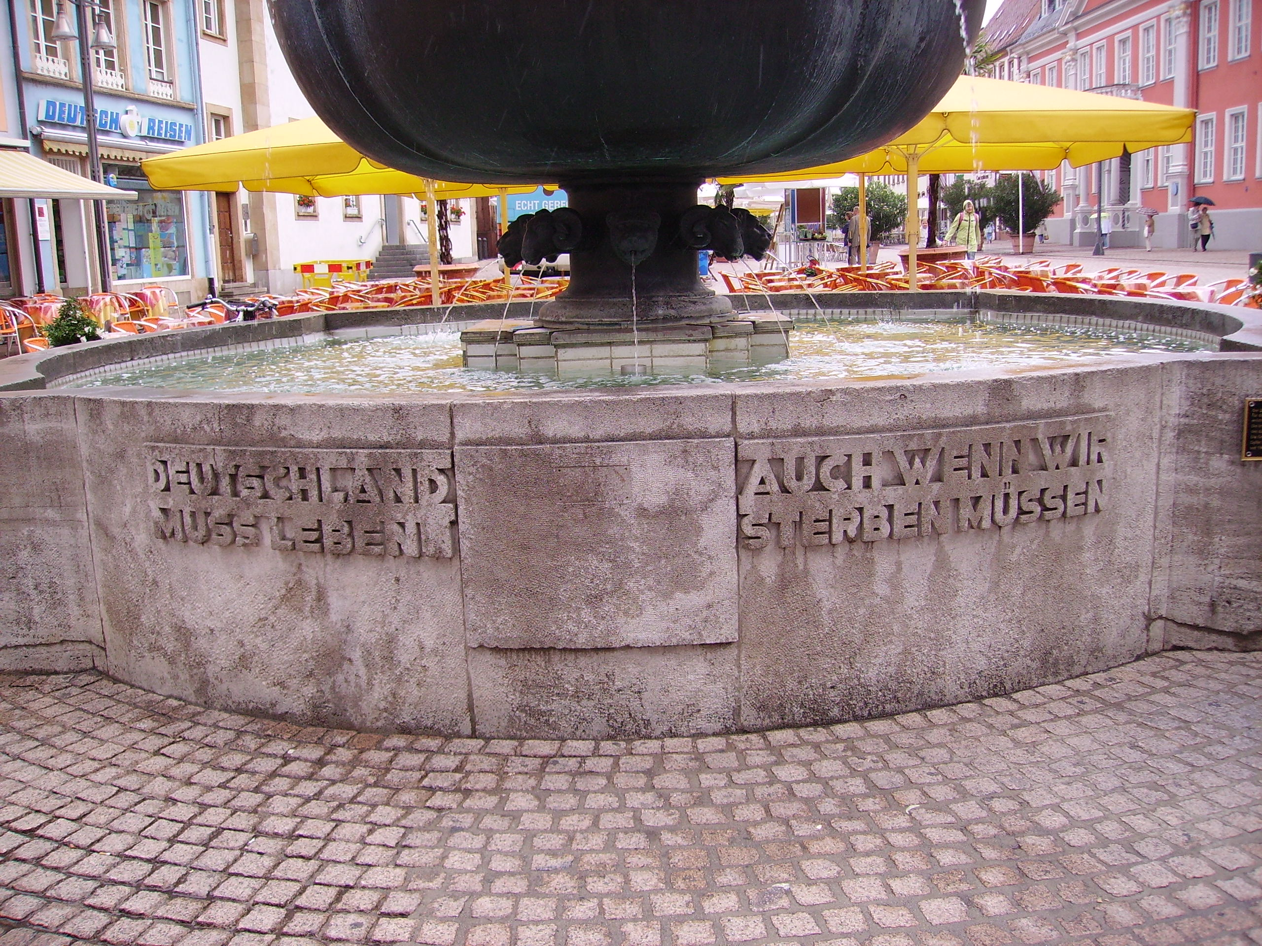 fountain in Speyer, Germany